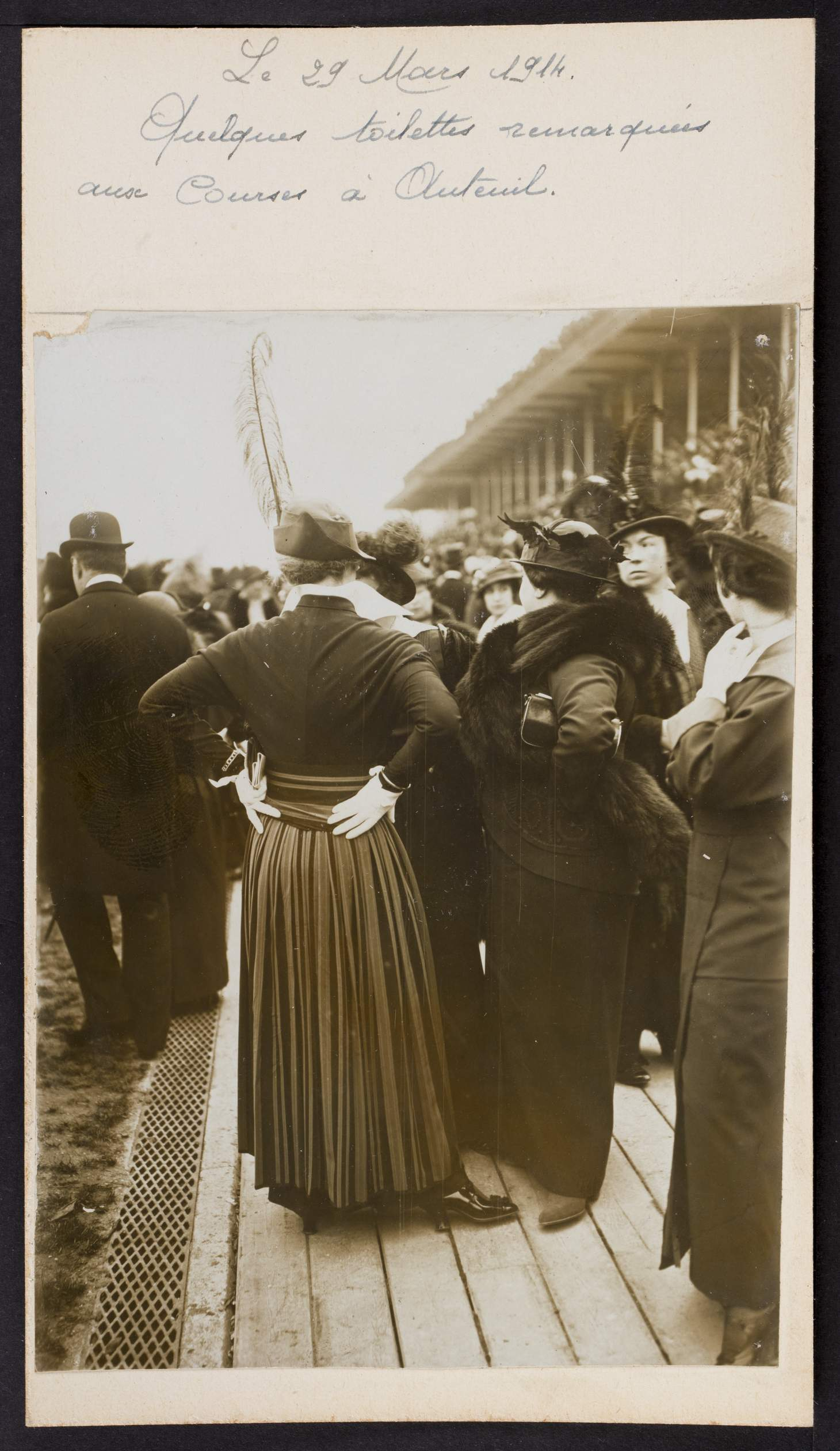 Le 29 mars 1914. Quelques toilettes remarquées aux courses d'Auteuil.